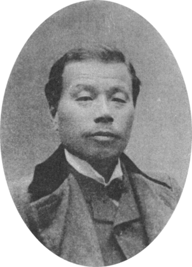 Late Mr. Munenori Takanose.